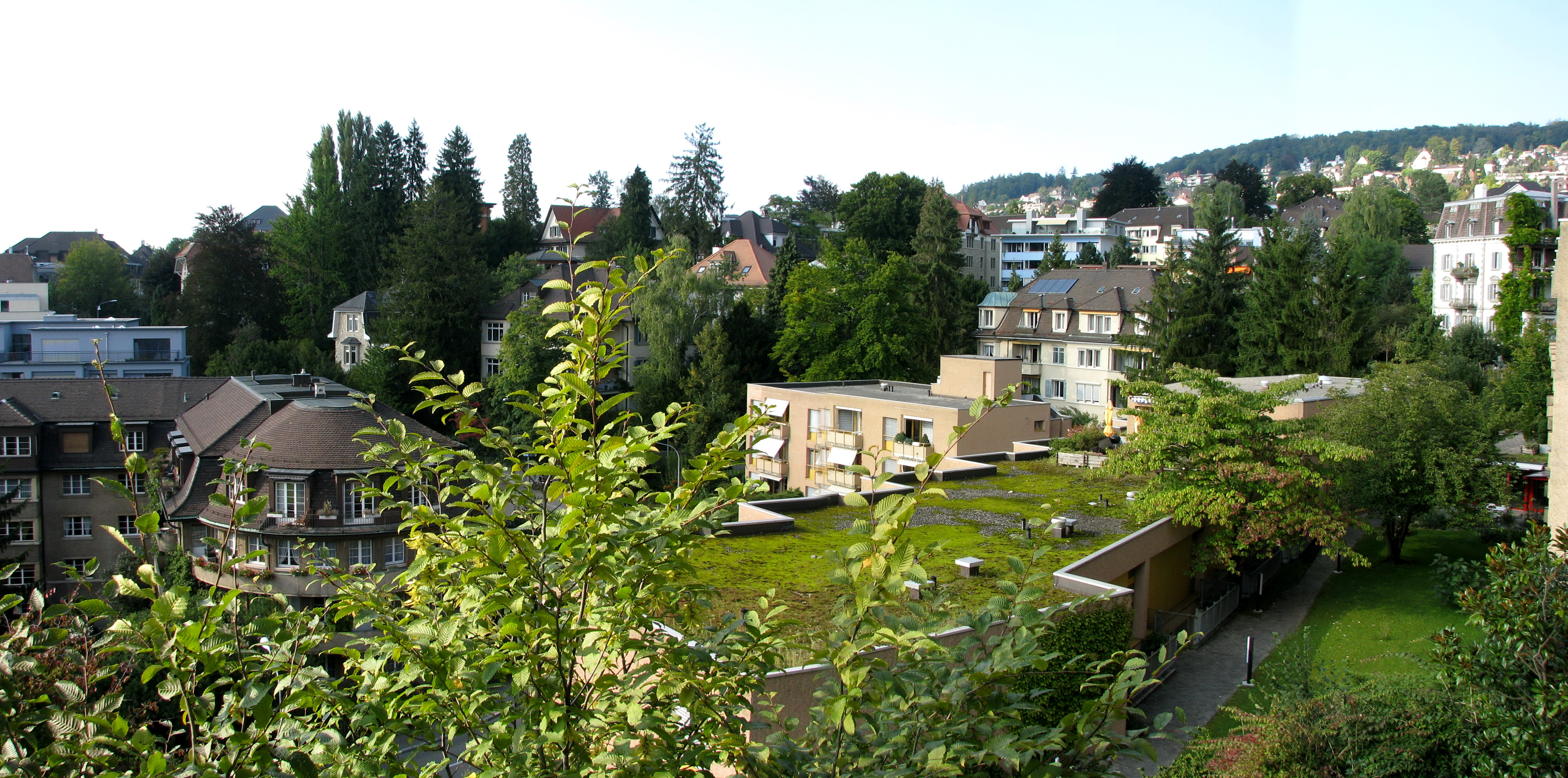 Zürich : Fluntern, sight to the Soutern Zürichberg.